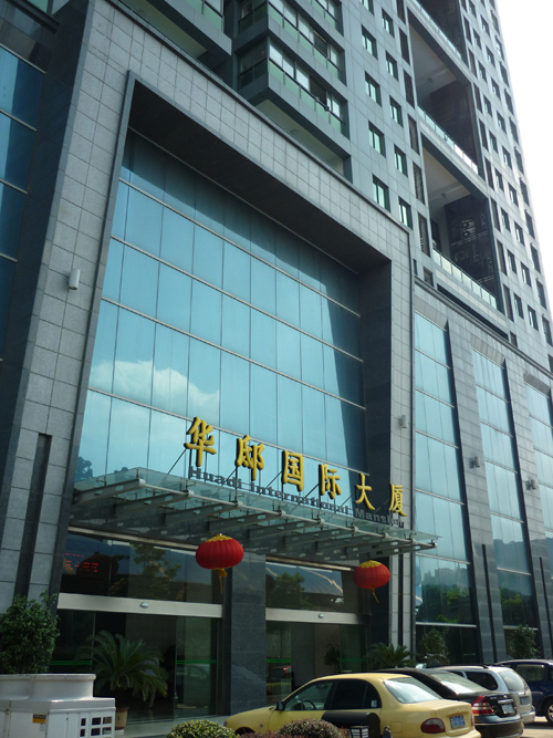 China Materialia LLC Wuxi Office